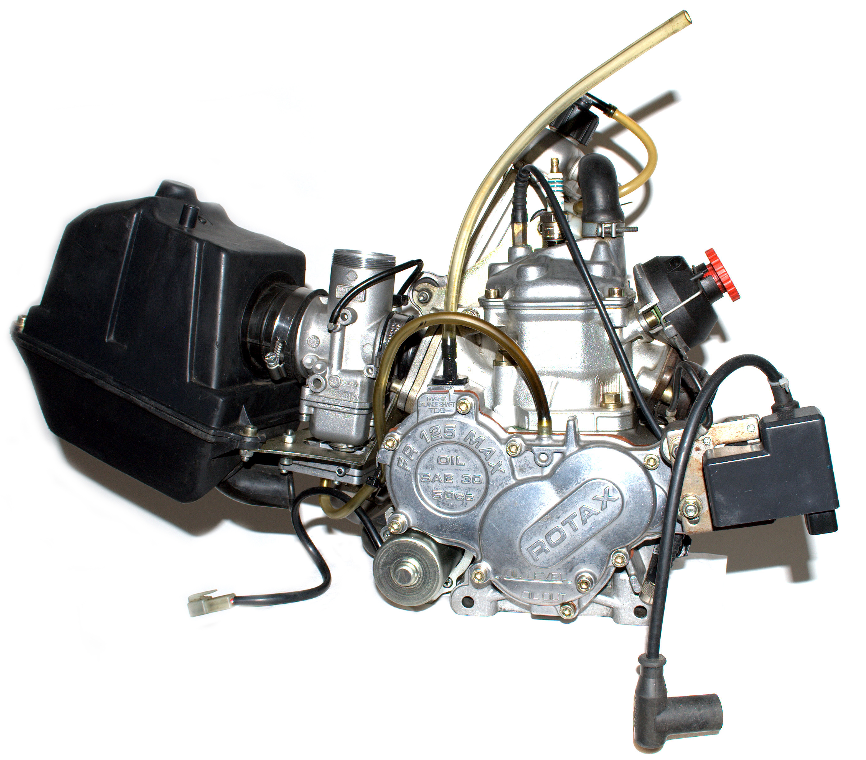 Rotax FR 125 Senior Max Engine